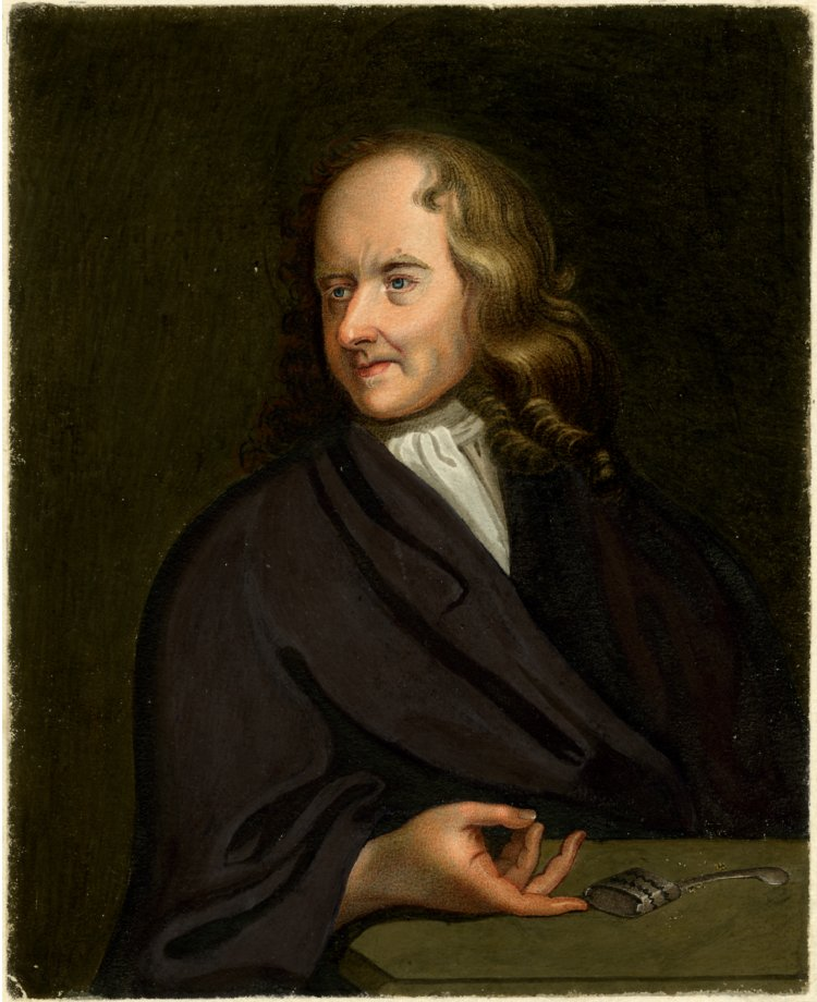 Portrait of Theodore Haak, the German Calvinist scholar and translator. Drawing by Sylvester Harding, with watercolour and bodycolour. 151 mm x 122 mm. Courtesy of the British Museum, London.